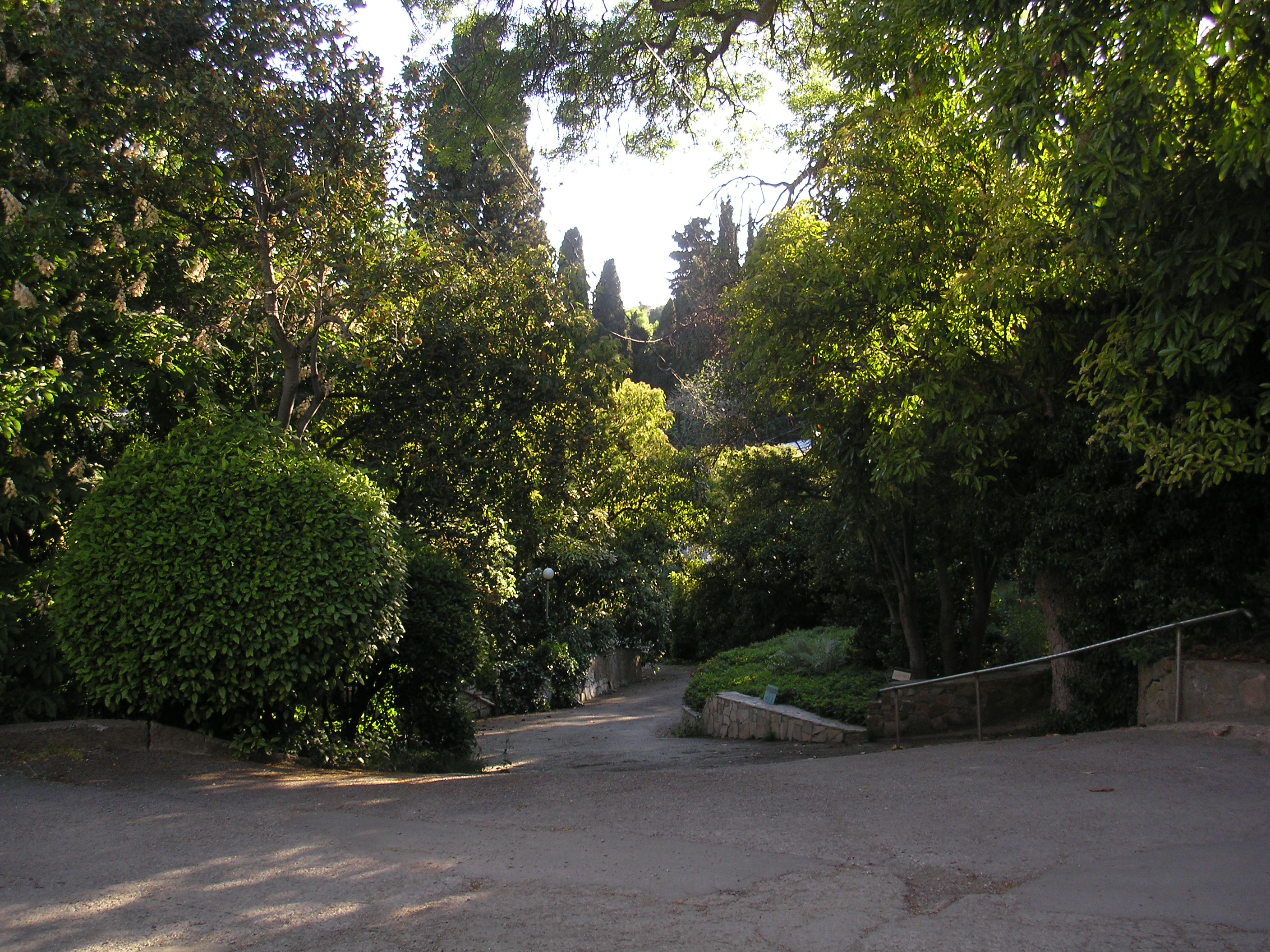 Park in the estate Karasan Crimea